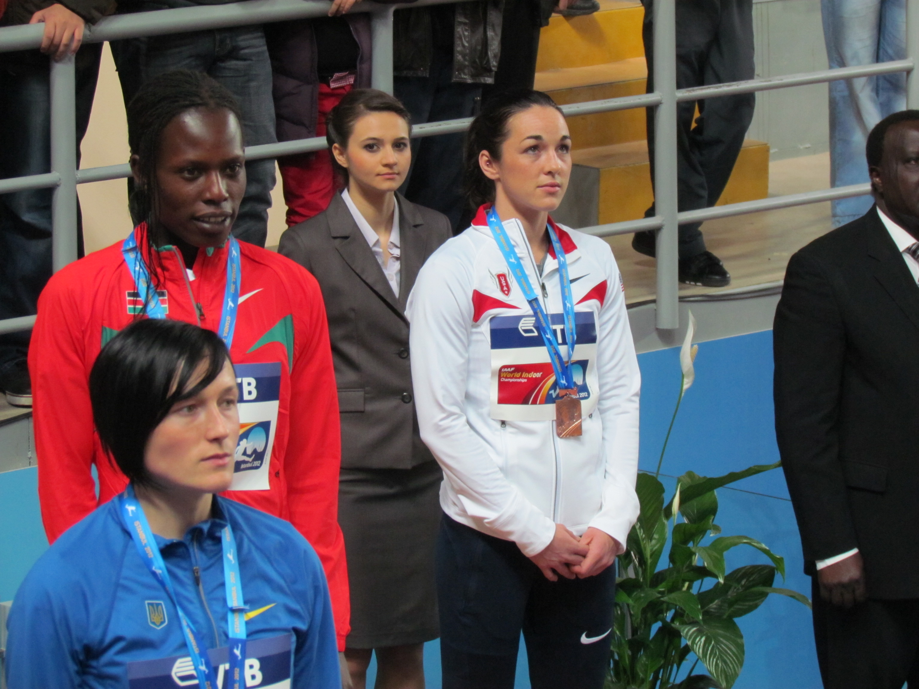 The 2012 IAAF World Indoor Championships in Athletics was the 14th edition of the global-level indoor track and field competition and was held between March 9–11, 2012 at the Ataköy Athletics Arena in Istanbul, Turkey. Nataliia Lupu, Pamela Jelimo, Erica Moore